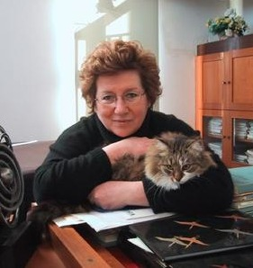 Digital Photograph- Taken in Osaka, Japan- December 2004.